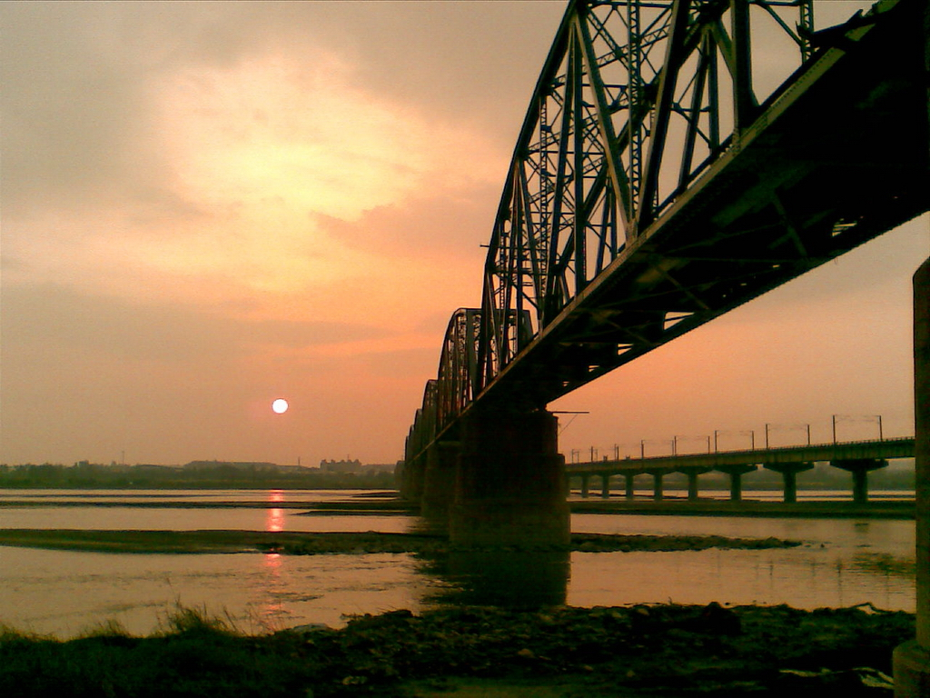 The Old Gaoping Bridge also called The Bridge of Siadanshui River,is a Warren Truss on the Pingtung Line in Taiwan.The photo shows sunset of the bridge.